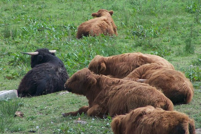 Spot the 'Black Sheep' of the Herd ! Taken at RSPB's Old Moor syte.